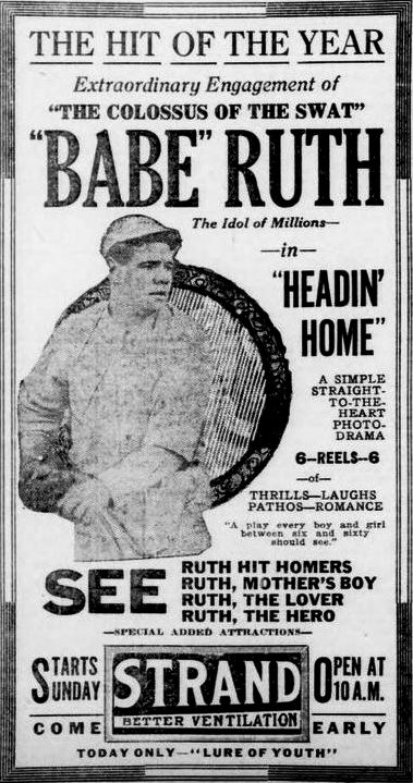 Newspaper advertisement for the American baseball film Heading Home (1920), also known as Headin' Home, with Babe Ruth, on page 5 of the August 6, 1921 Duluth Herald.